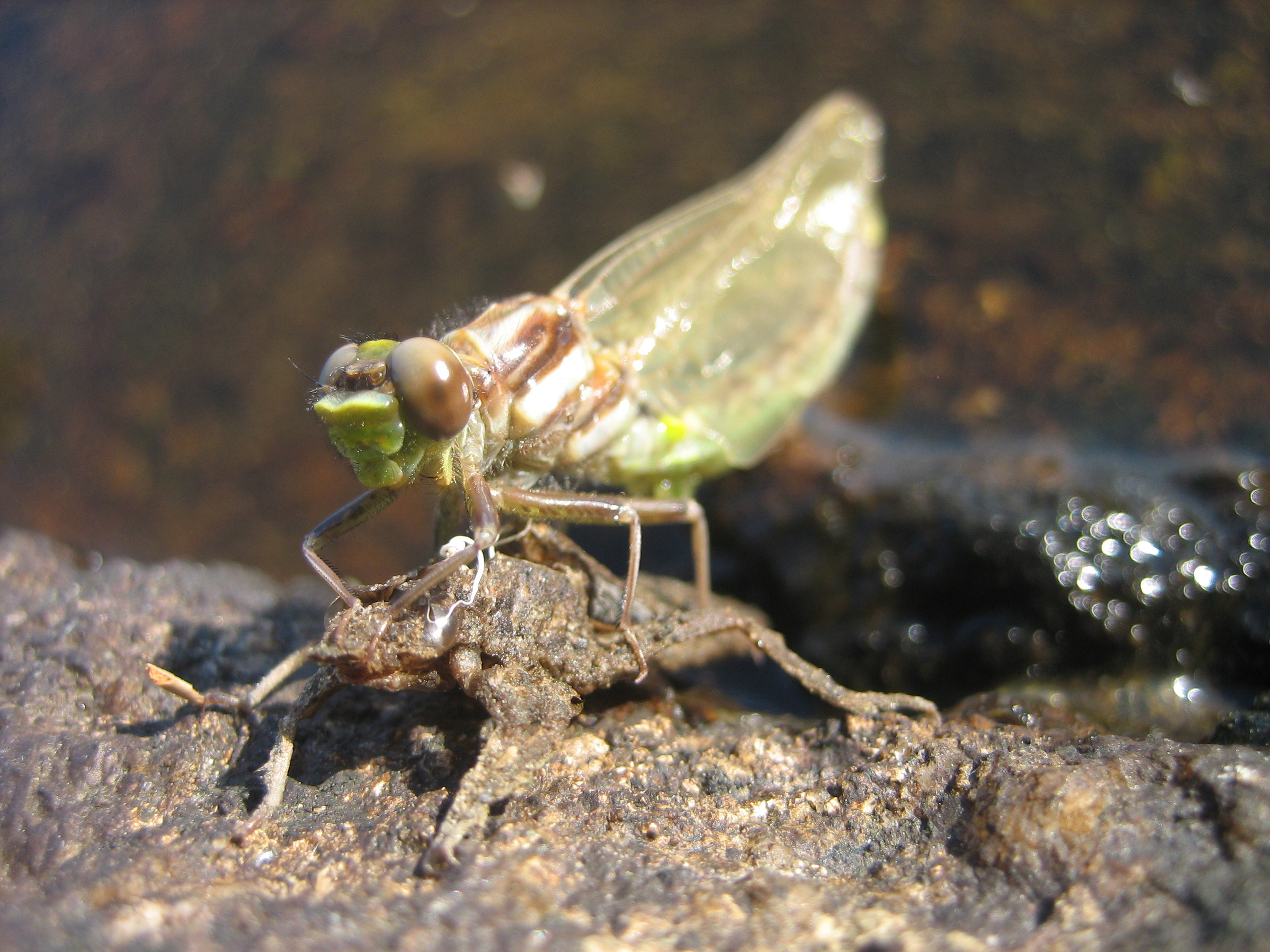 Dragonfly emerging from its former self